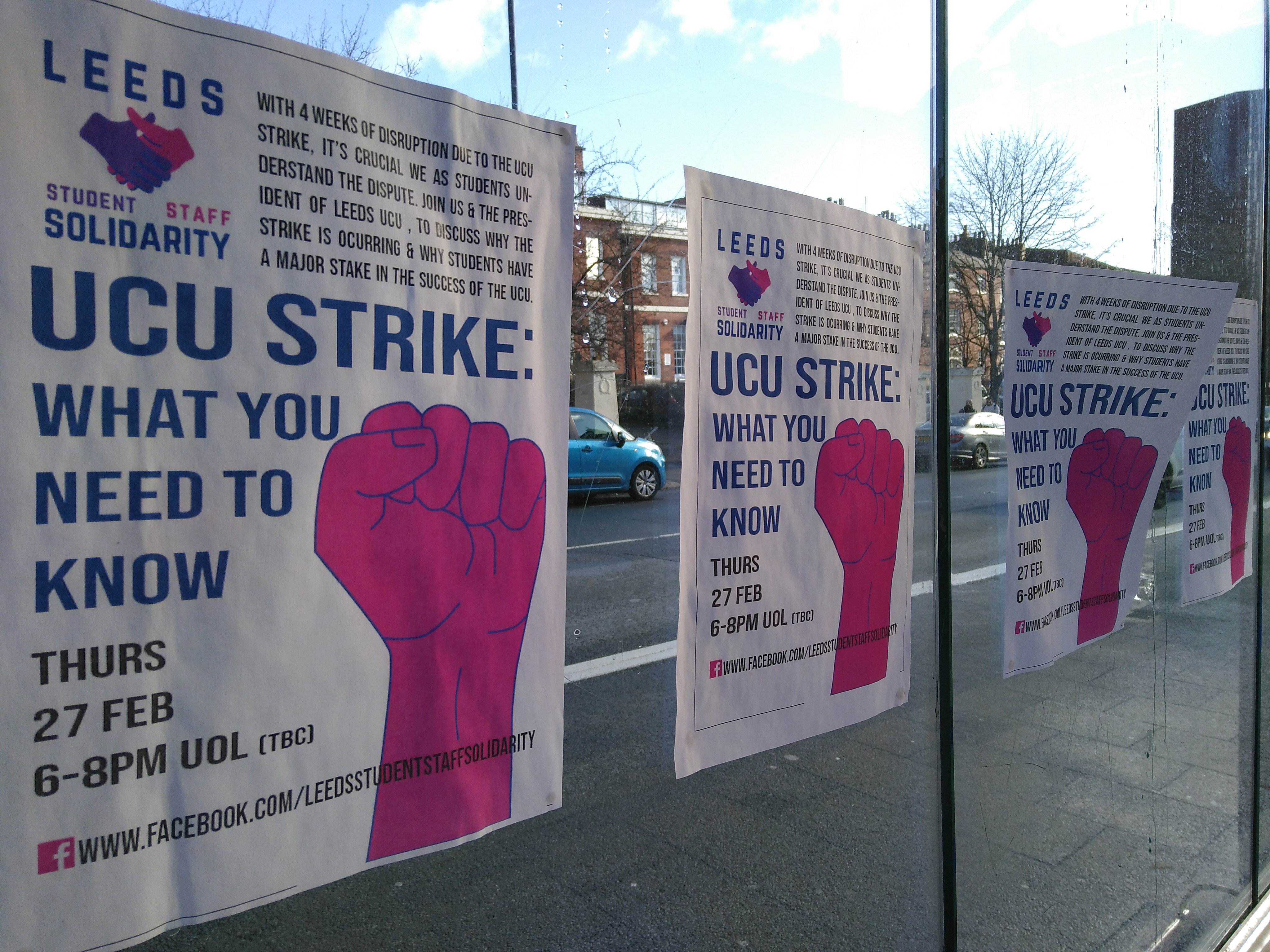 UCU strike what you need to know posters 2020 02 26